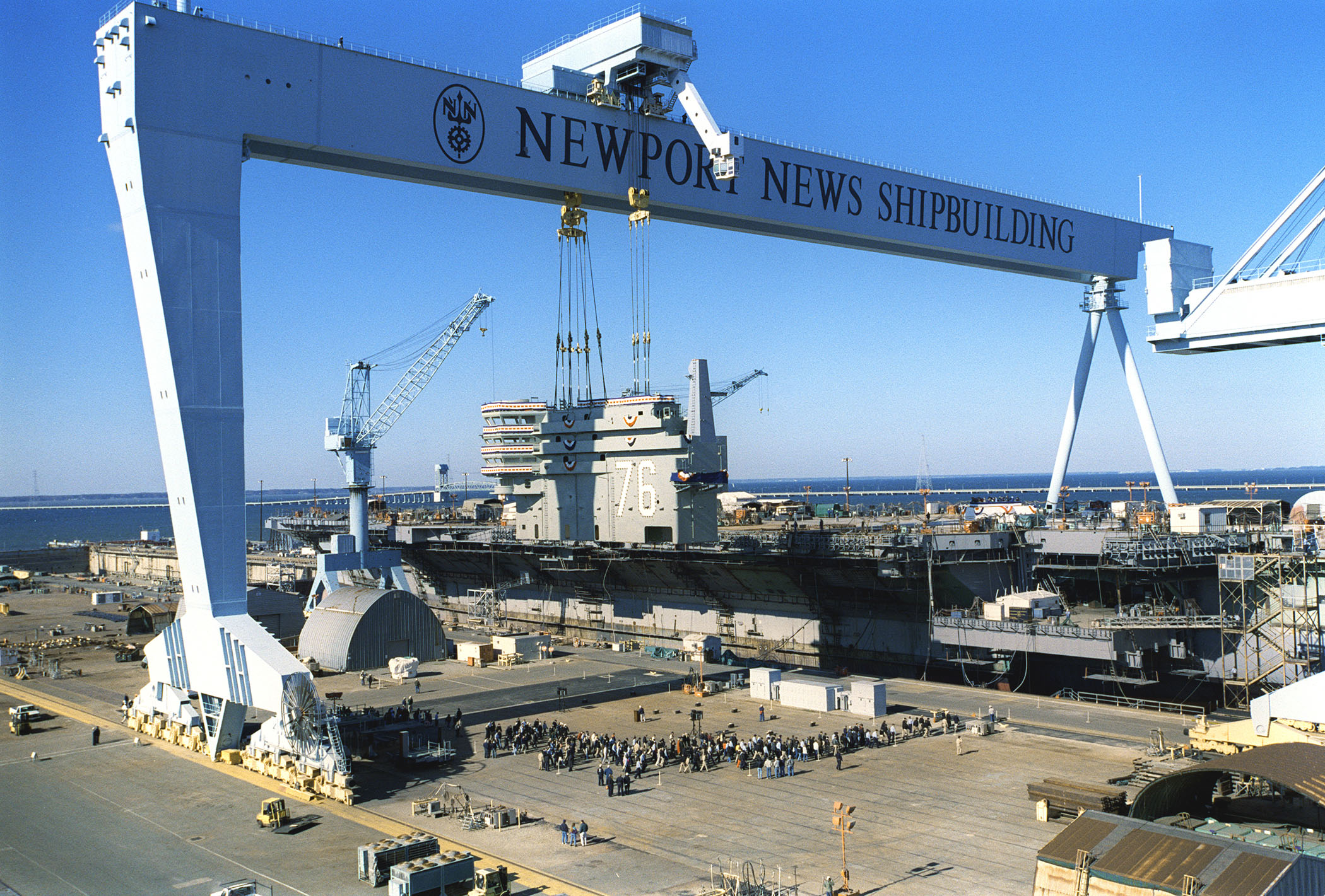 001111-N-0000D-002 NEWPORT NEWS, Virginia (Nov. 11, 2000) -- The island structure of the aircraft carrier Ronald Reagan (CVN 76) is lifted into place at Newport News Shipbuilding. Photo Courtesy of Newport News Shipbuilding. (RELEASED)